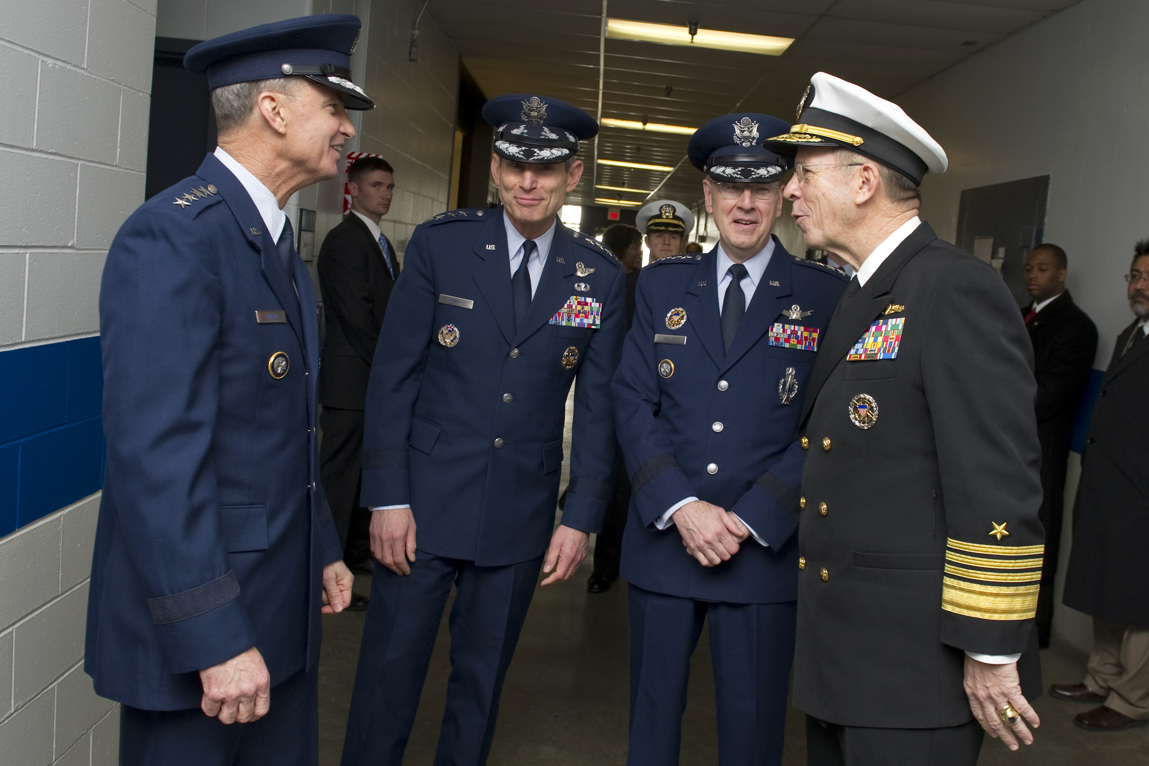 From left to right, Air Force Gen. Kevin P. Chilton, outgoing commander, U.S. Strategic Command, Air Force Chief of Staff Gen. Norton A. Schwartz, Air Force Gen. C. Robert Kehler, incoming commander, and Navy Adm. MIke Mullen, chairman of the Joint Chiefs of Staff, speak before the U.S. Strategic Command change-of-command ceremony on Offutt Air Force Base, Neb., Jan. 28, 2011.